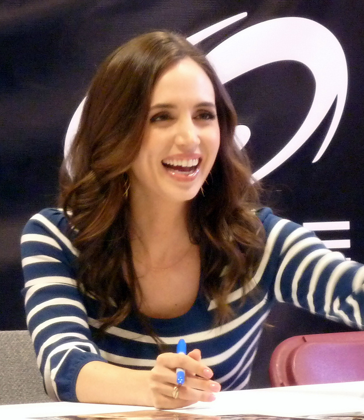 Actress Eliza Dushku at Fan Expo 2011 in Toronto.